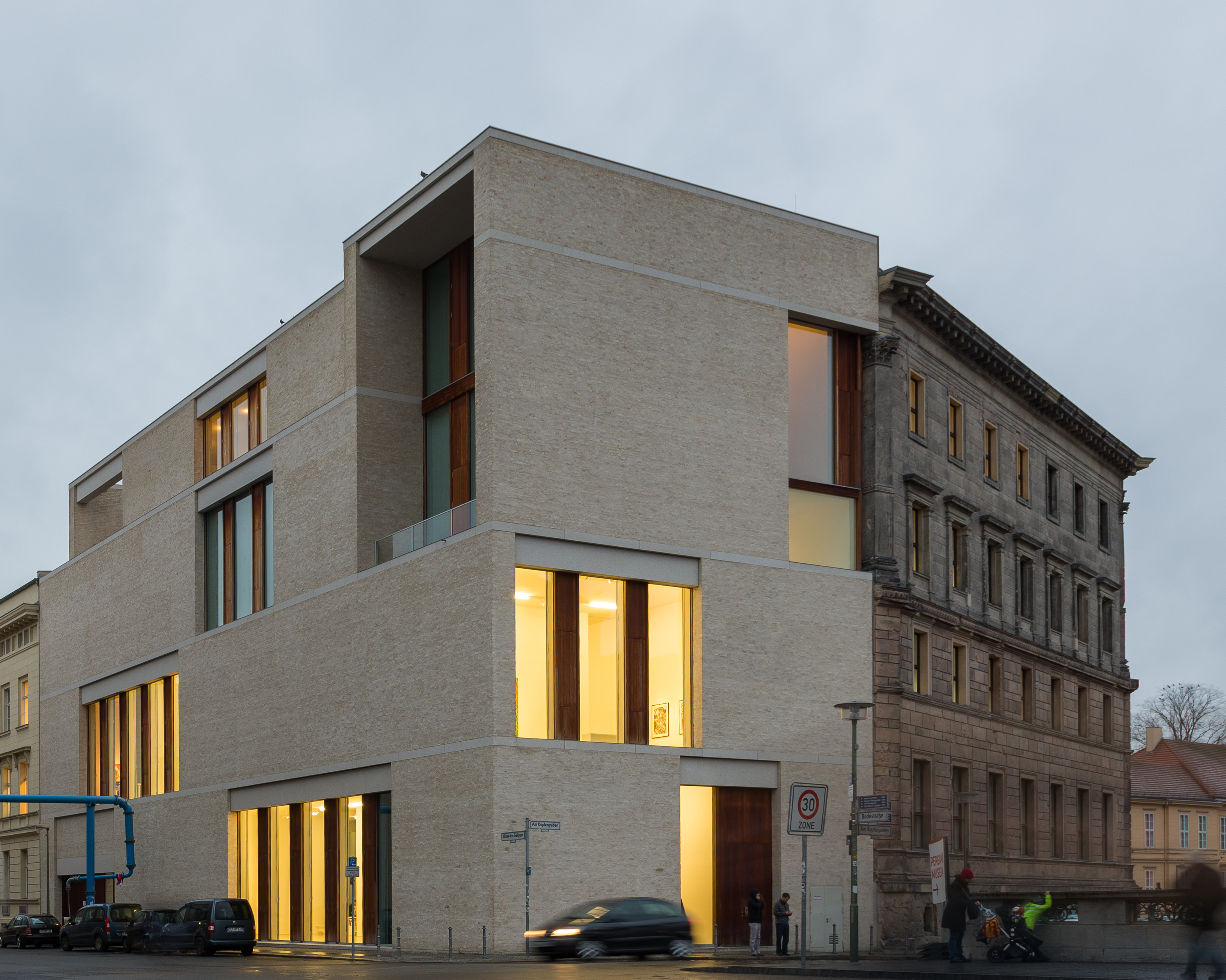 Art gallery Am Kupfergraben 10, Berlin. Architects: David Chipperfield Architects.